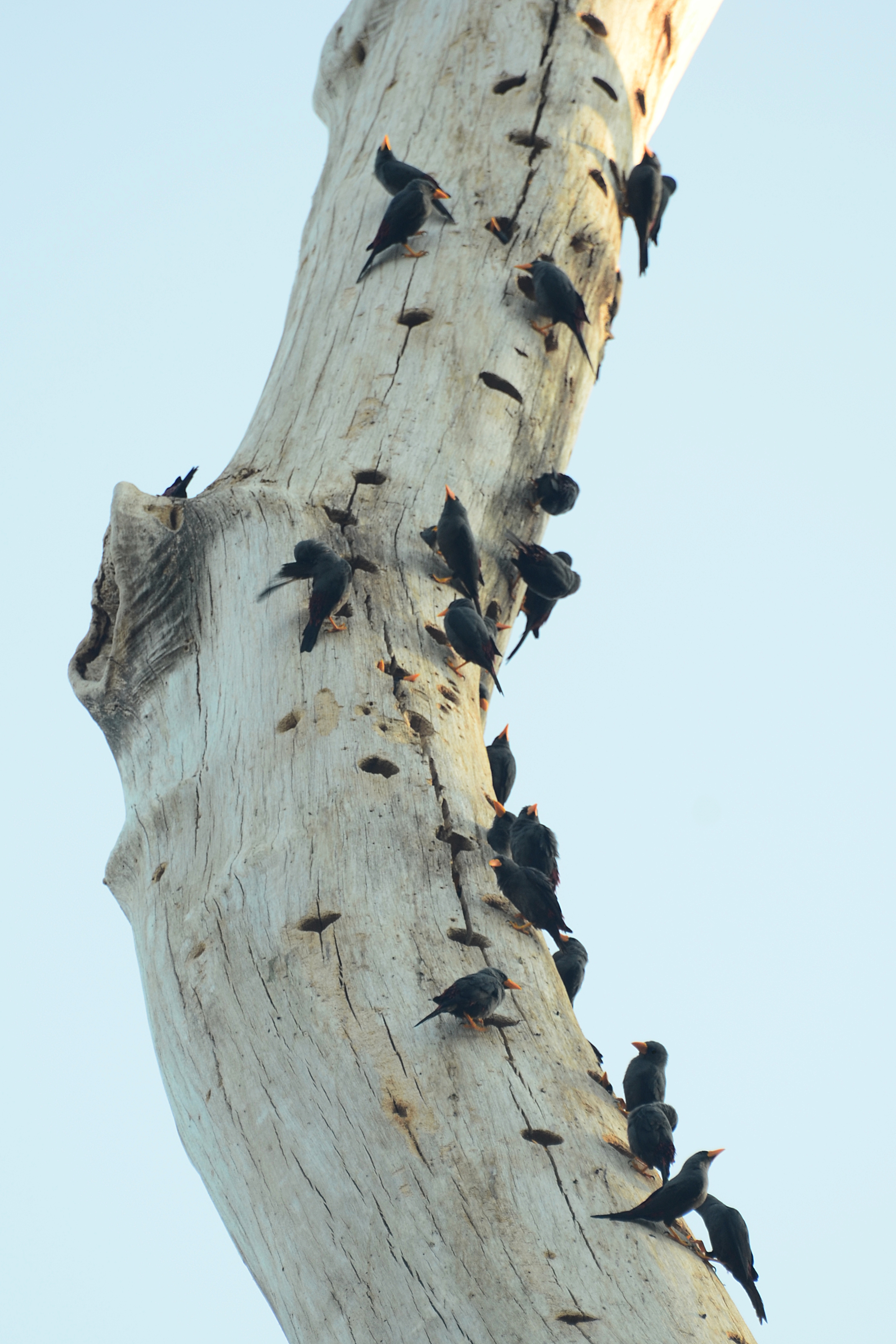 Grosbeak starling (Scissirostrum dubium) at Mount Tumpa, North Sulawesi.